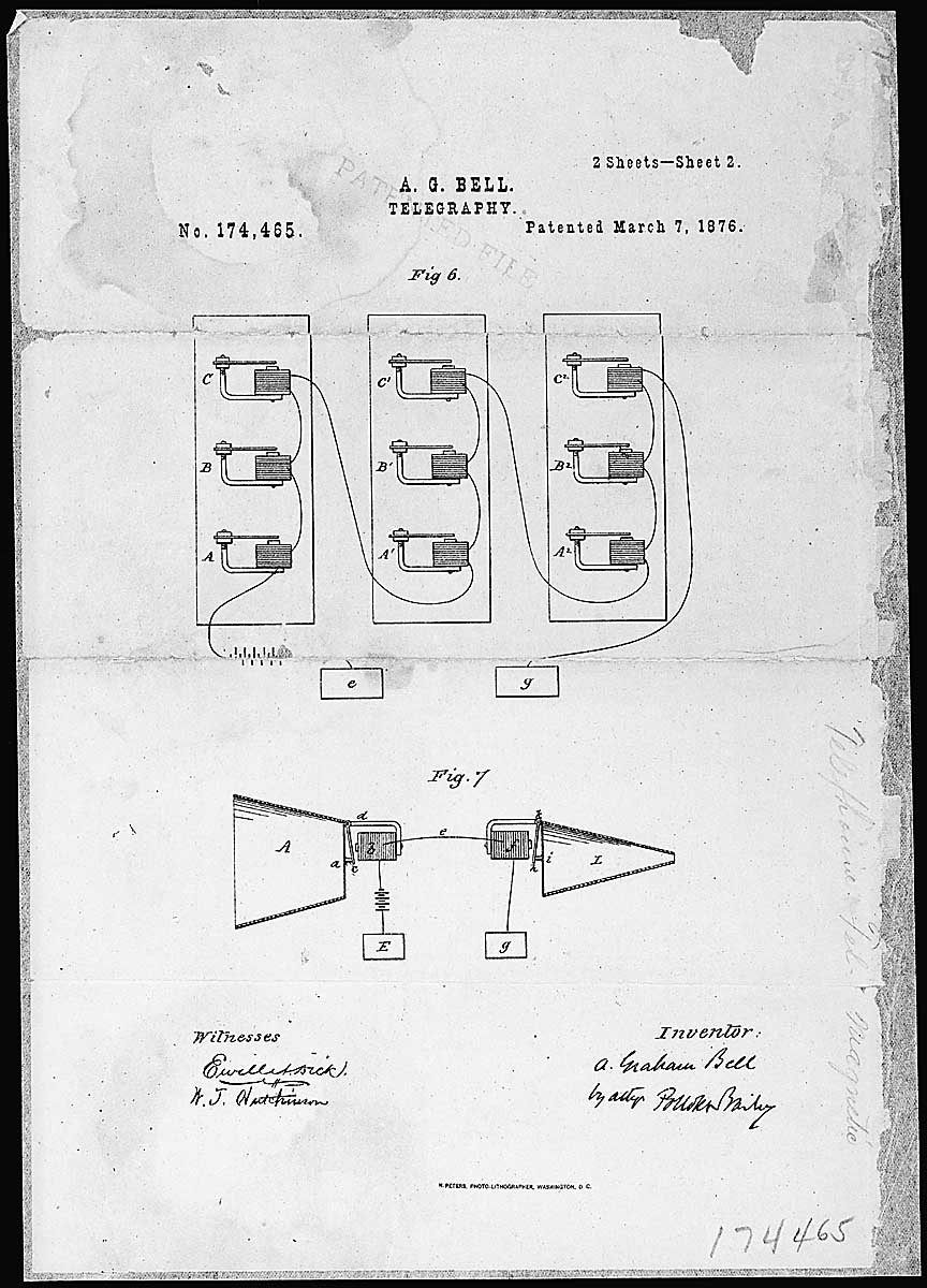 Alexander Graham Bell's Telephone Patent Drawing, 03/07/1876. Bell's telephone was the first apparatus to transmit human speech via machine. His work culminated in one of the most profitable and contested of all 19th-century patents. From the National Archives.